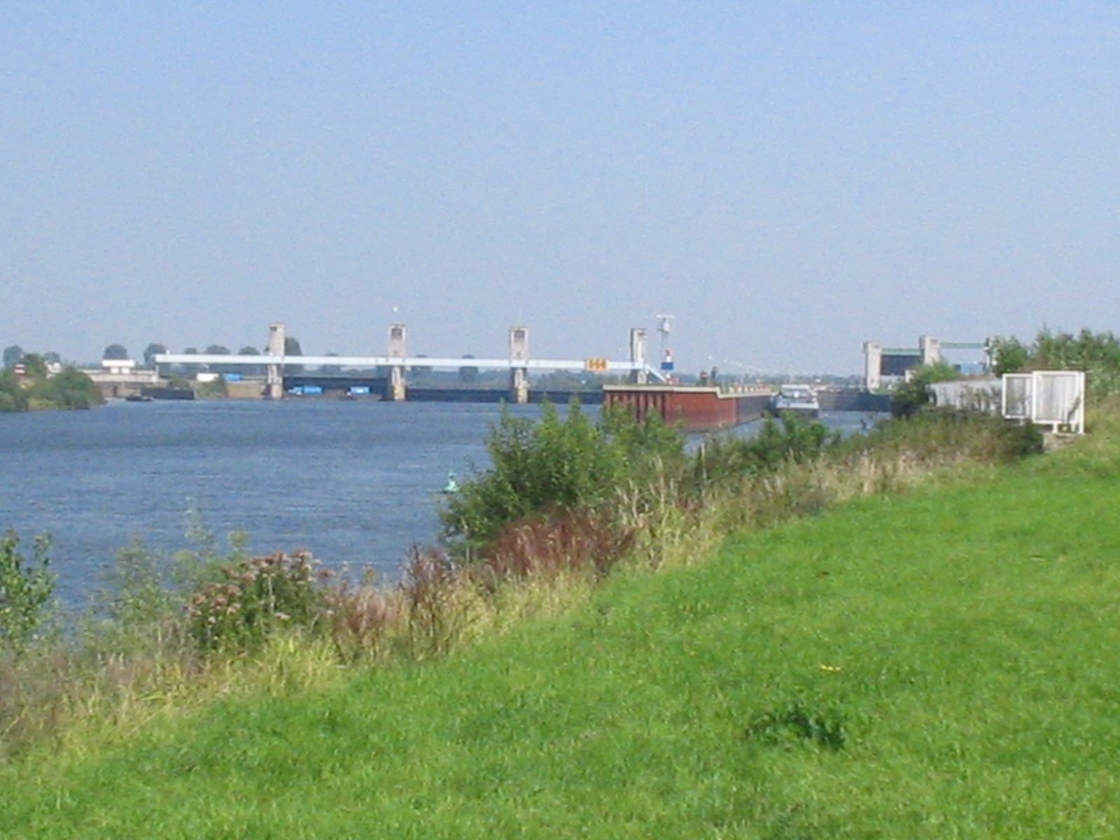 village Lith (Netherlands), august 2005